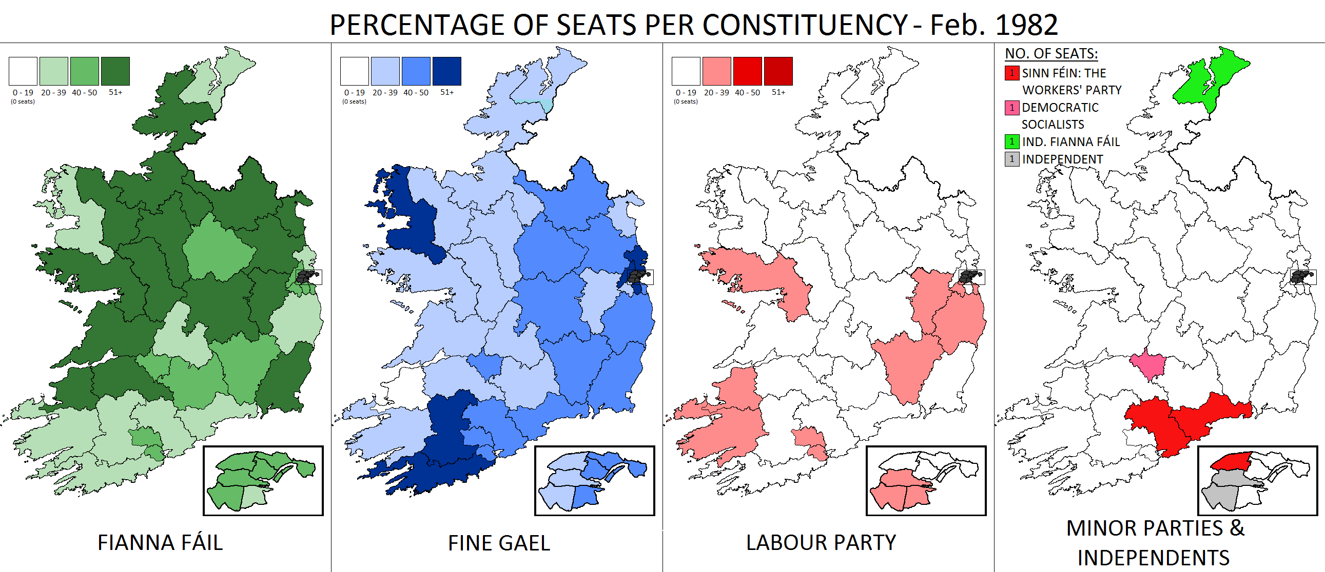 Graphical representation of the February 1982 Irish general election results. Created by myself using data from Wikipedia and literary sources.